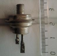 Thyristor